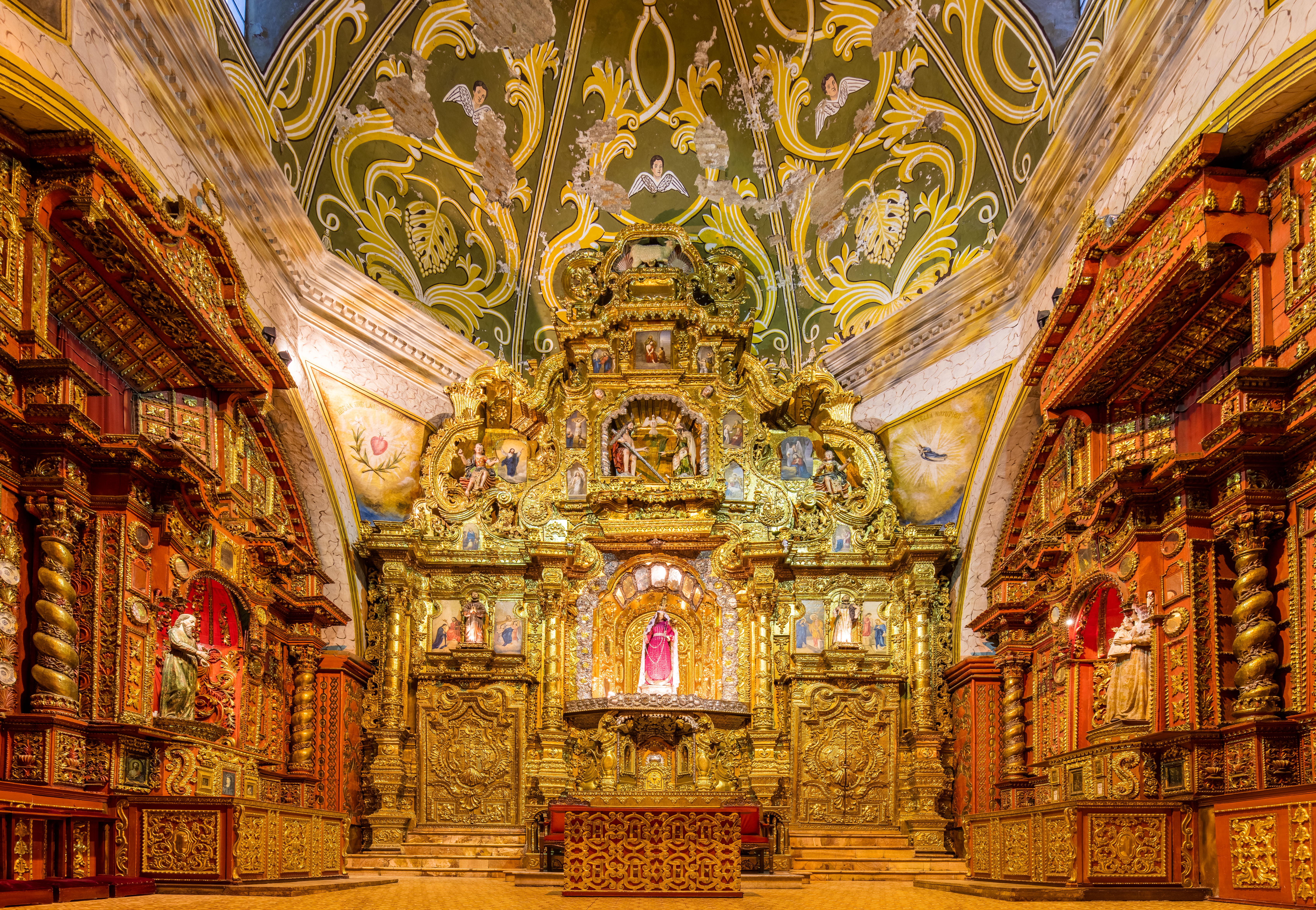 Main reredos of the Chapel of the Rosary in St Domingo church in the Historic Center of Quito, Ecuador. The catholic temple was constructed between 1540 and 1688 following the plans of architect Francisco Becerra. The baroque chapel, dedicated to Our Lady of the Rosary, is the most featurable in the church and was painted by priest Pedro Bedón at the beginning of the 17th century.